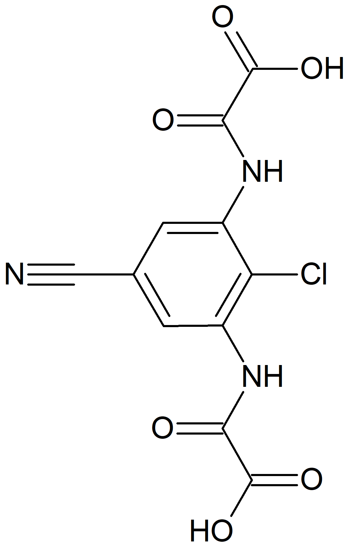 Lodoxamide structure